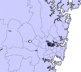 Locator Map Canada Bay sydney.png Based on Image:Ku-ring-gai sydney.png by User:Randwicked.